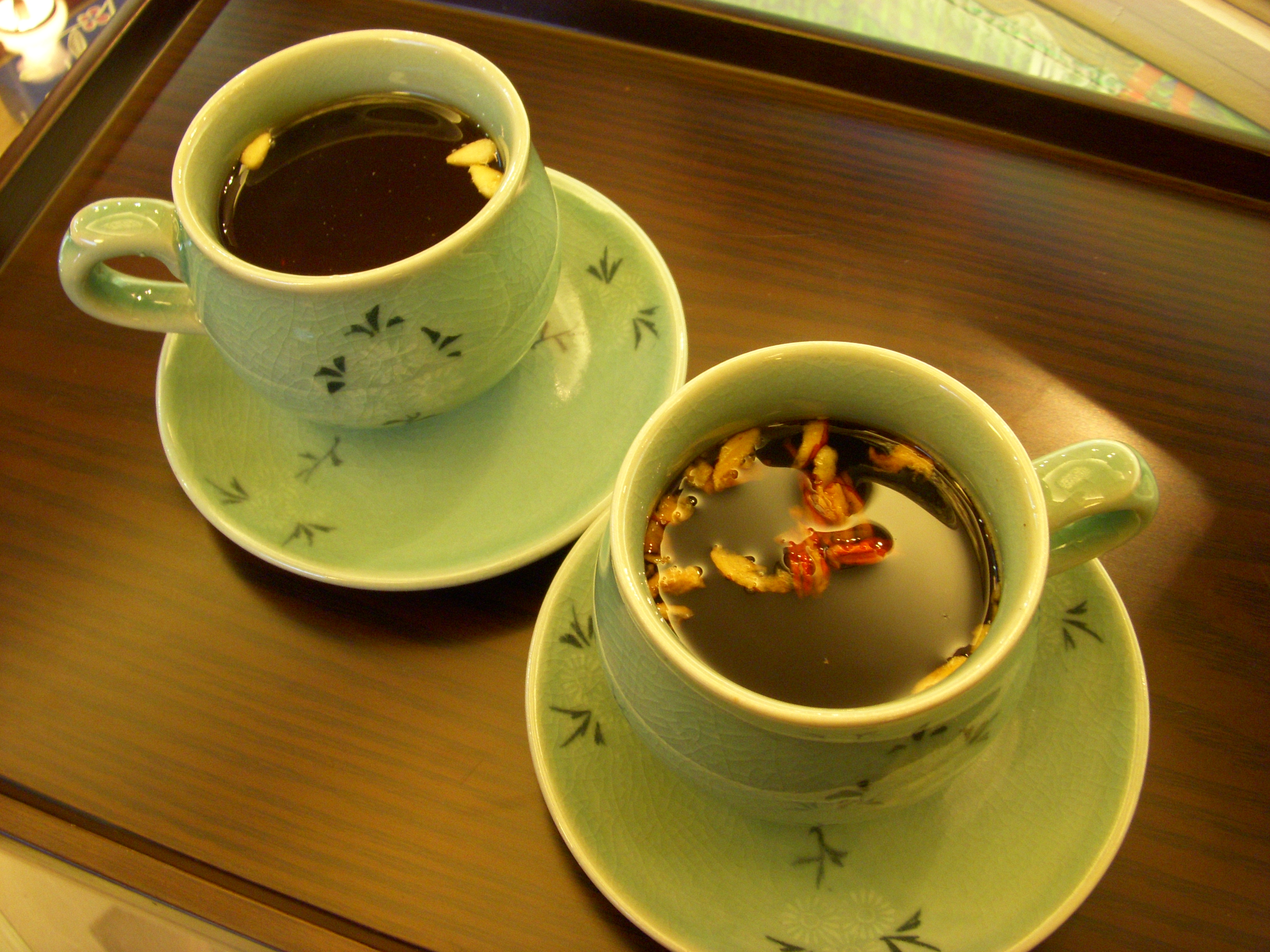 Daechucha, Korean jujube tea